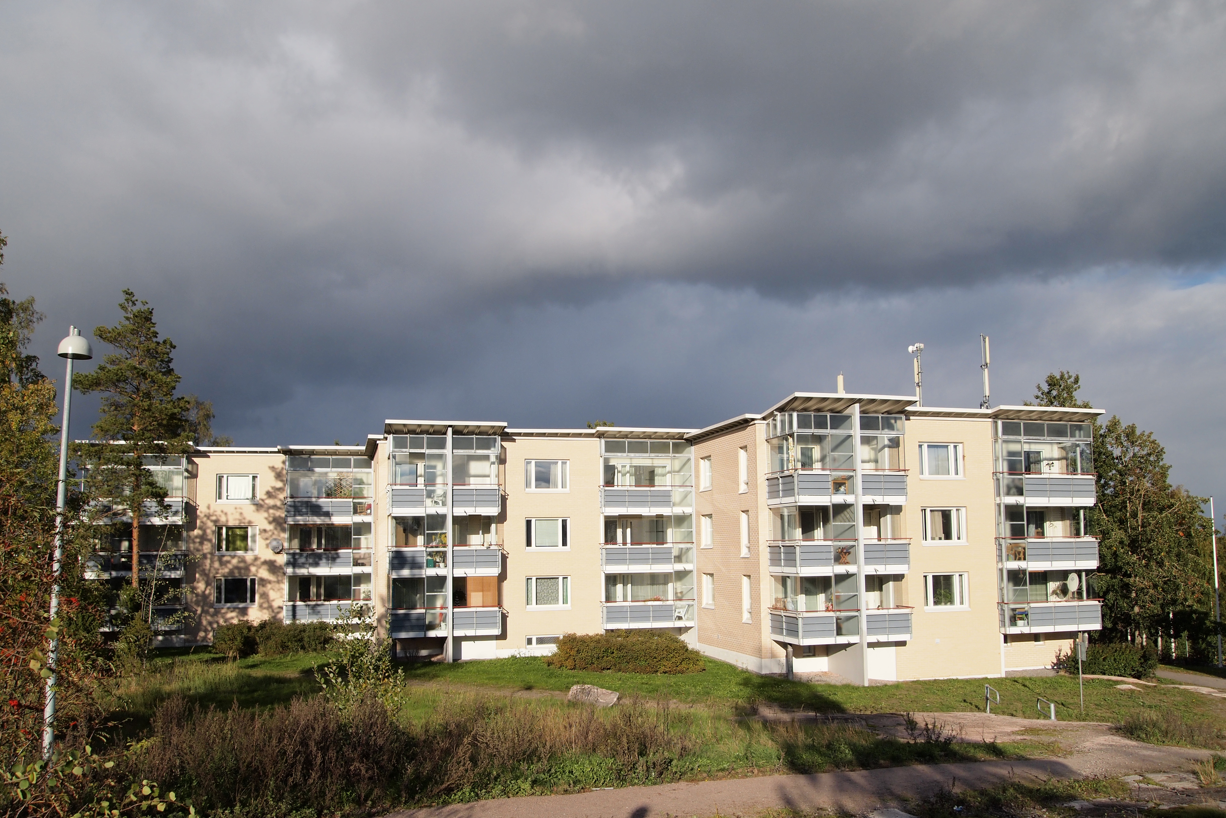 Apartment buildings in Jakomäki, Helsinki. This photograph was taken with a Olympus E-PL1.